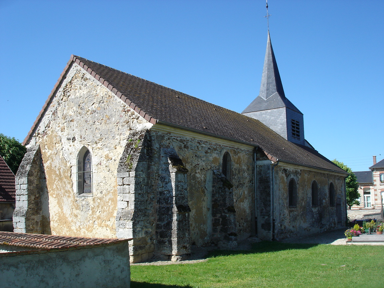 Saint Martin Church, Etrechy, Marne, France